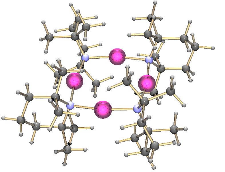 tetramer of Lithium tetramethylpiperide